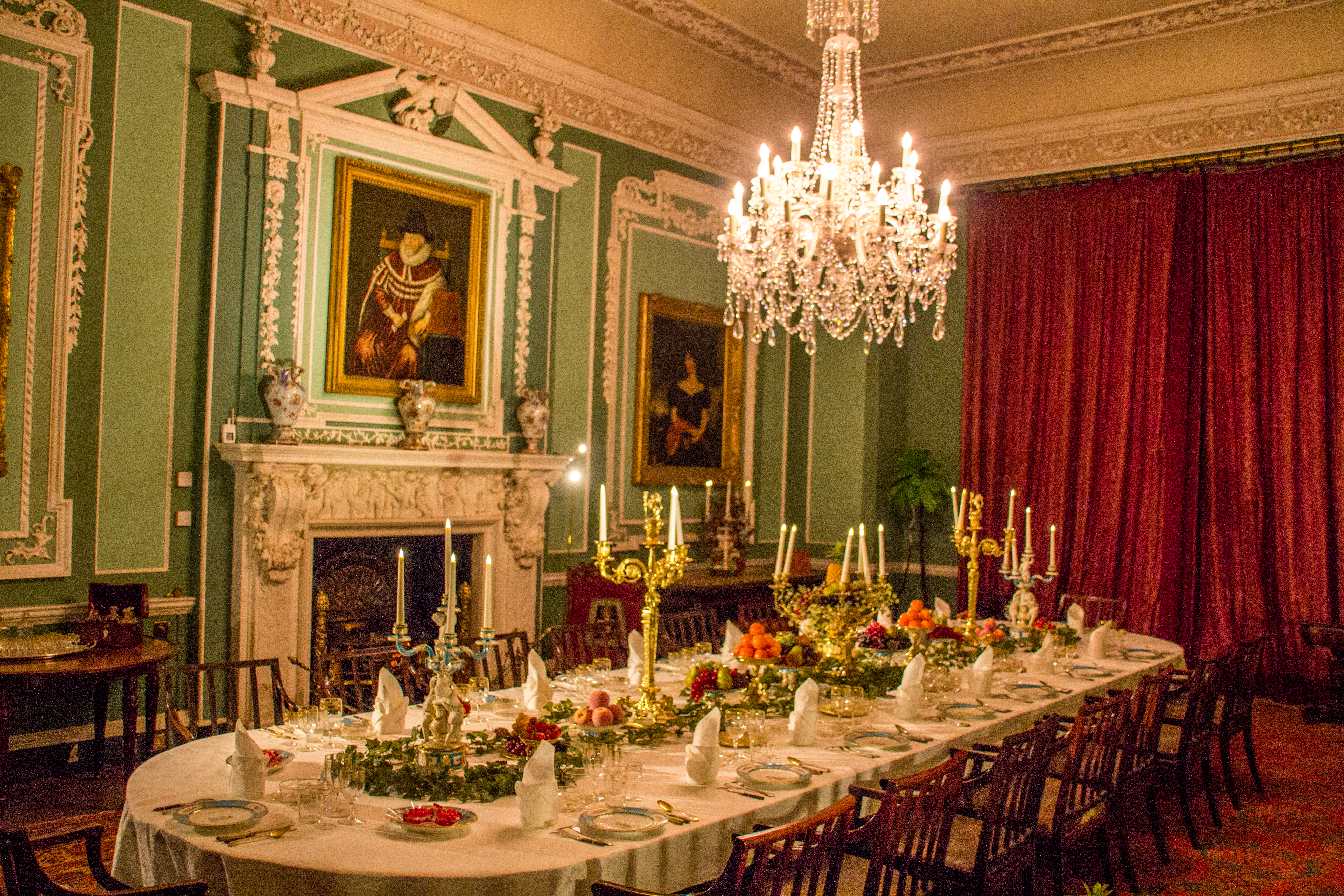 Inside Tatton Hall, Tatton Park, United Kingdom